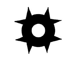 Flag of Ikawa Akita